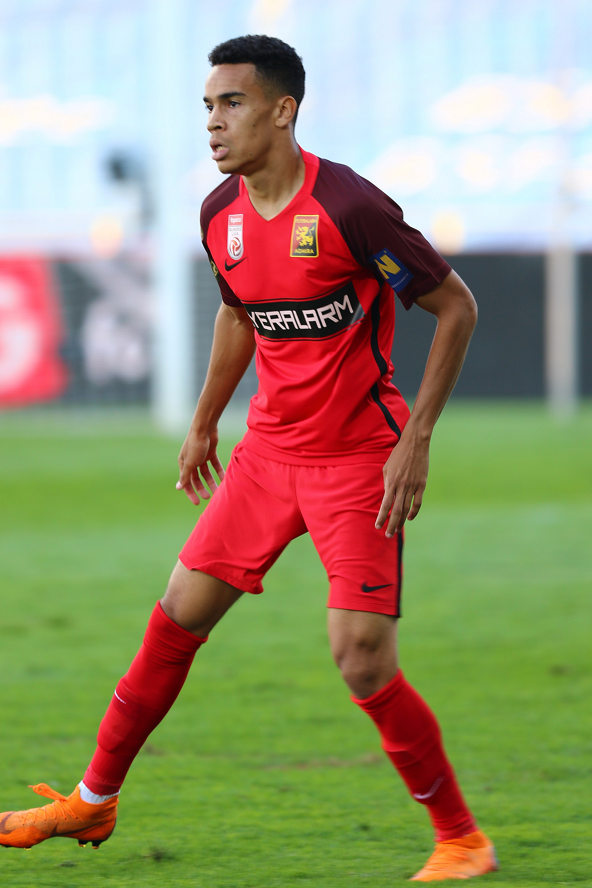 Austria Bundesliga, season 2018–19. Match FC Admira Wacker Mödling vs. LASK Linz 0:1 in the Bundessportzentrum Südstadt in Maria Enzersdorf at 2018-08-12 – The photo shows Pyry Soiri (FC Admira Wacker Mödling}.